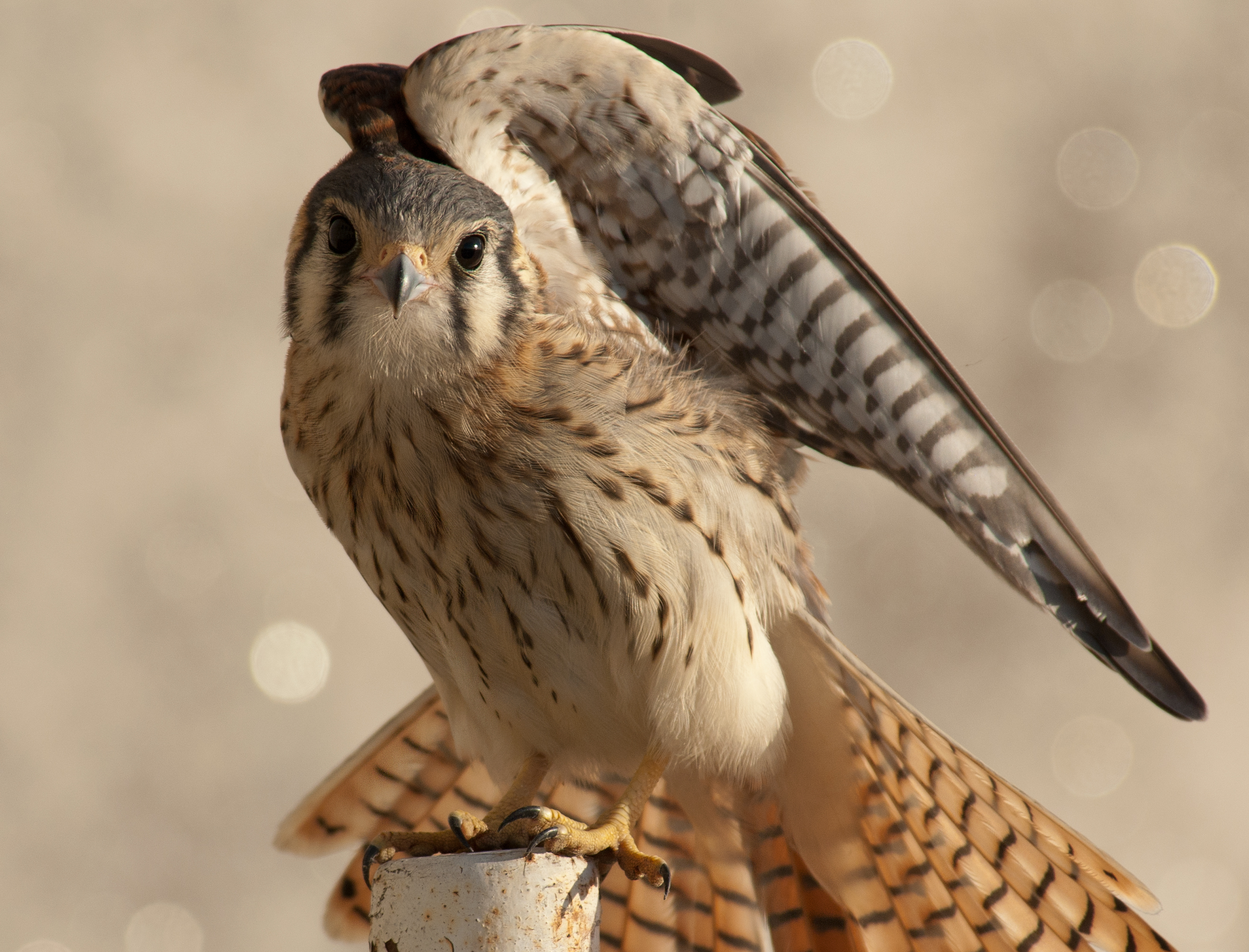 Falco sparverius cinnamonimus in Montevideo, Uruguay.